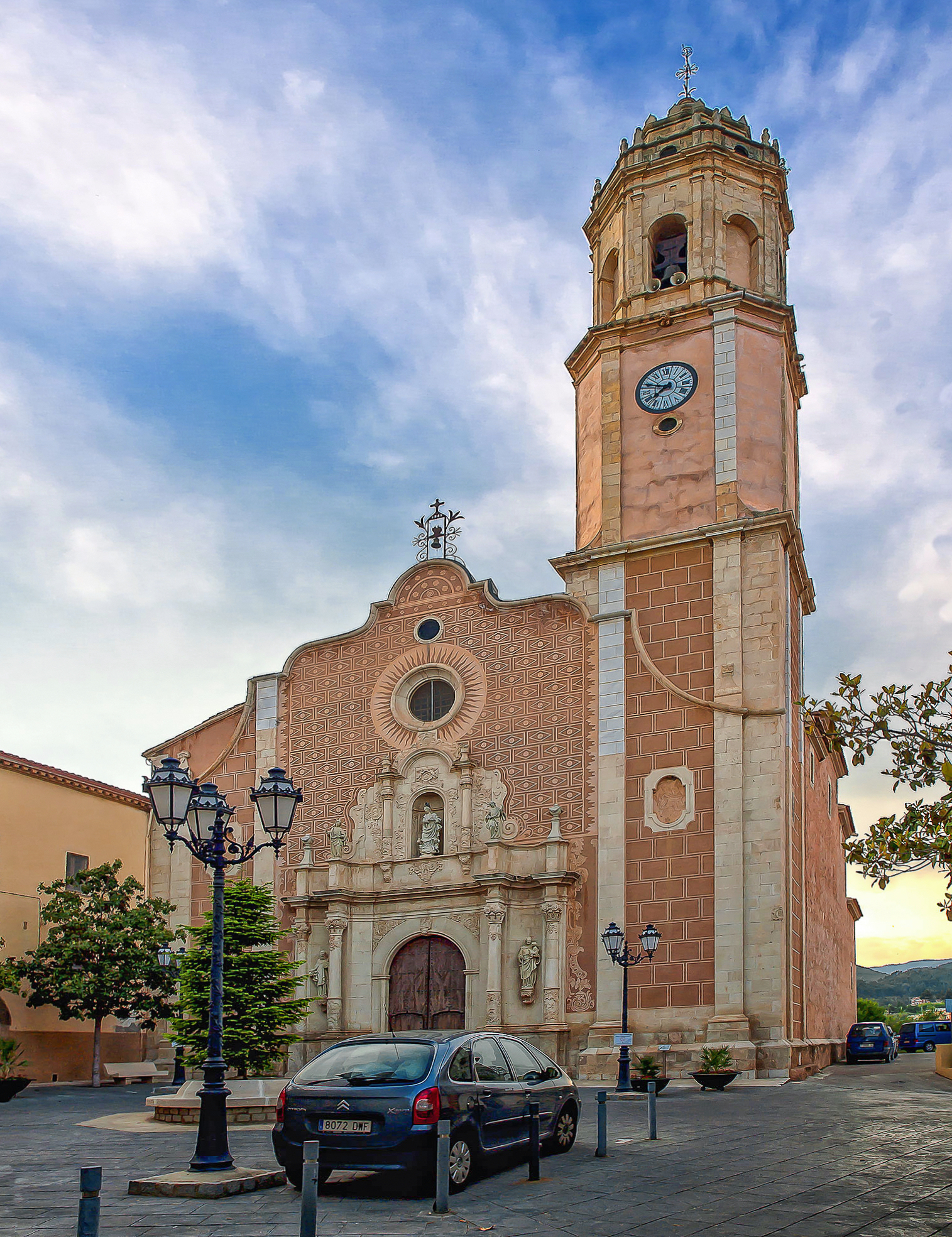 Church Square of Borges del Camp (Catalonia, Spain)